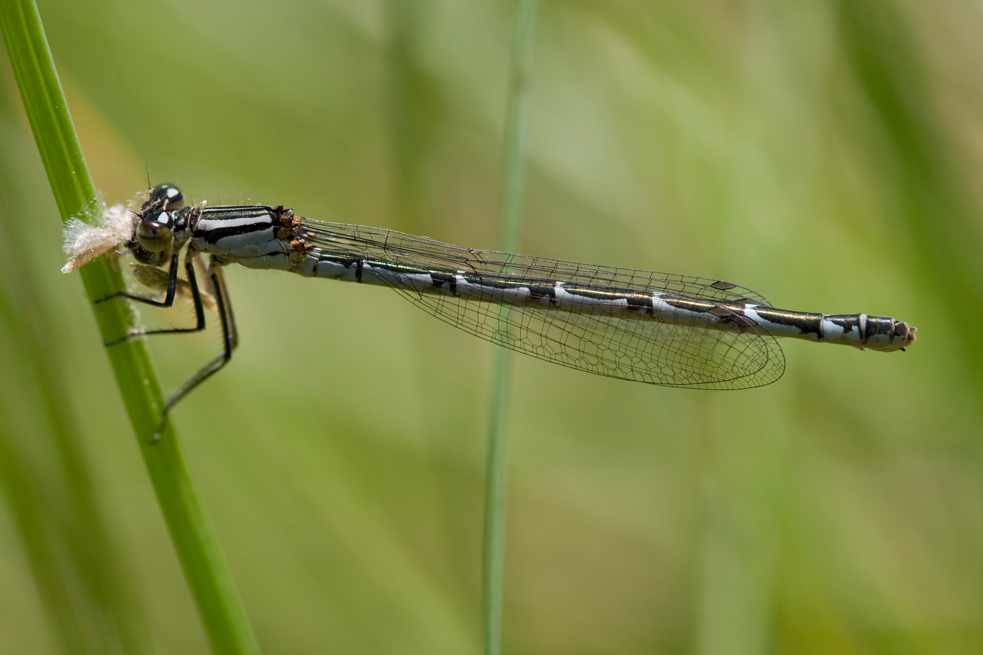 A female of the Common Blue Damselfly (Enallagma cyathigerum) eating a little moth, by biting off the wings first. Ahlen-Falkenberger Moor, a peatland in northern Lower Saxony, Germany.